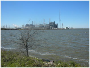 Smithers Lake is located about ten miles southeast of Richmond in Fort Bend County, on Dry Creek, a tributary of the Big Creek which is a tributary to the Brazos River. The project is owned and operated by the Houston Lighting and Power Company as the cooling-water supply for a steam-electric generating station. Water Rights were obtained by Permit No. 1812 (Application No. 1950) dated February 2, 1956 from the State Board of Water Engineers. The image is in the public domain because it is the product of Texas state government employees, funded by state taxpayers.